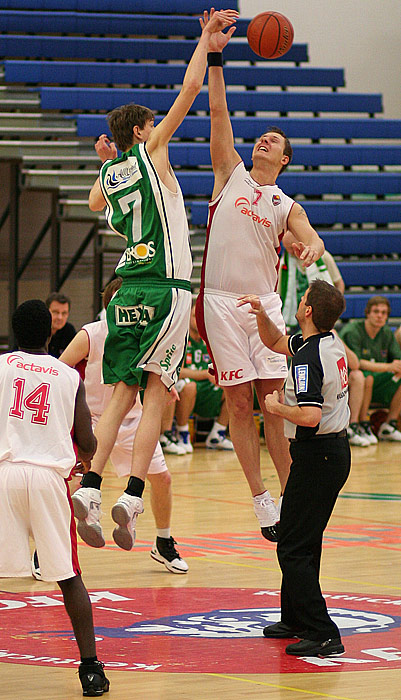 Taken by Gunnar Freyr Steinsson, January 26th 2006.